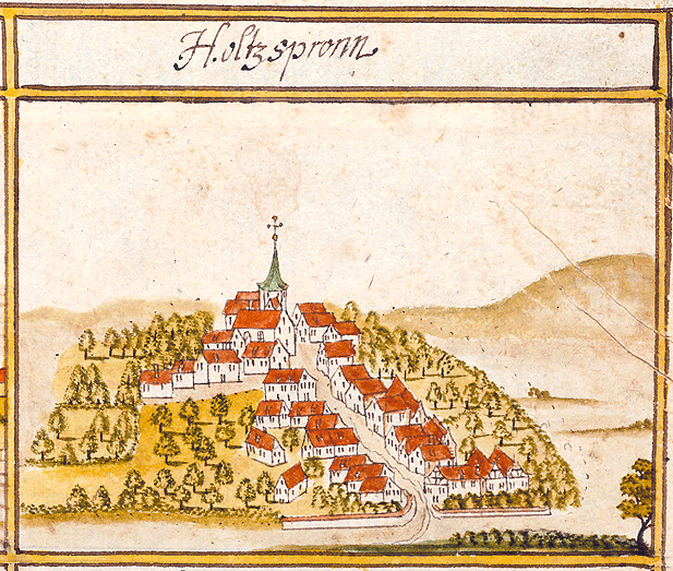 View of Holzbronn, Calw, from the forest register books created by Andreas Kieser